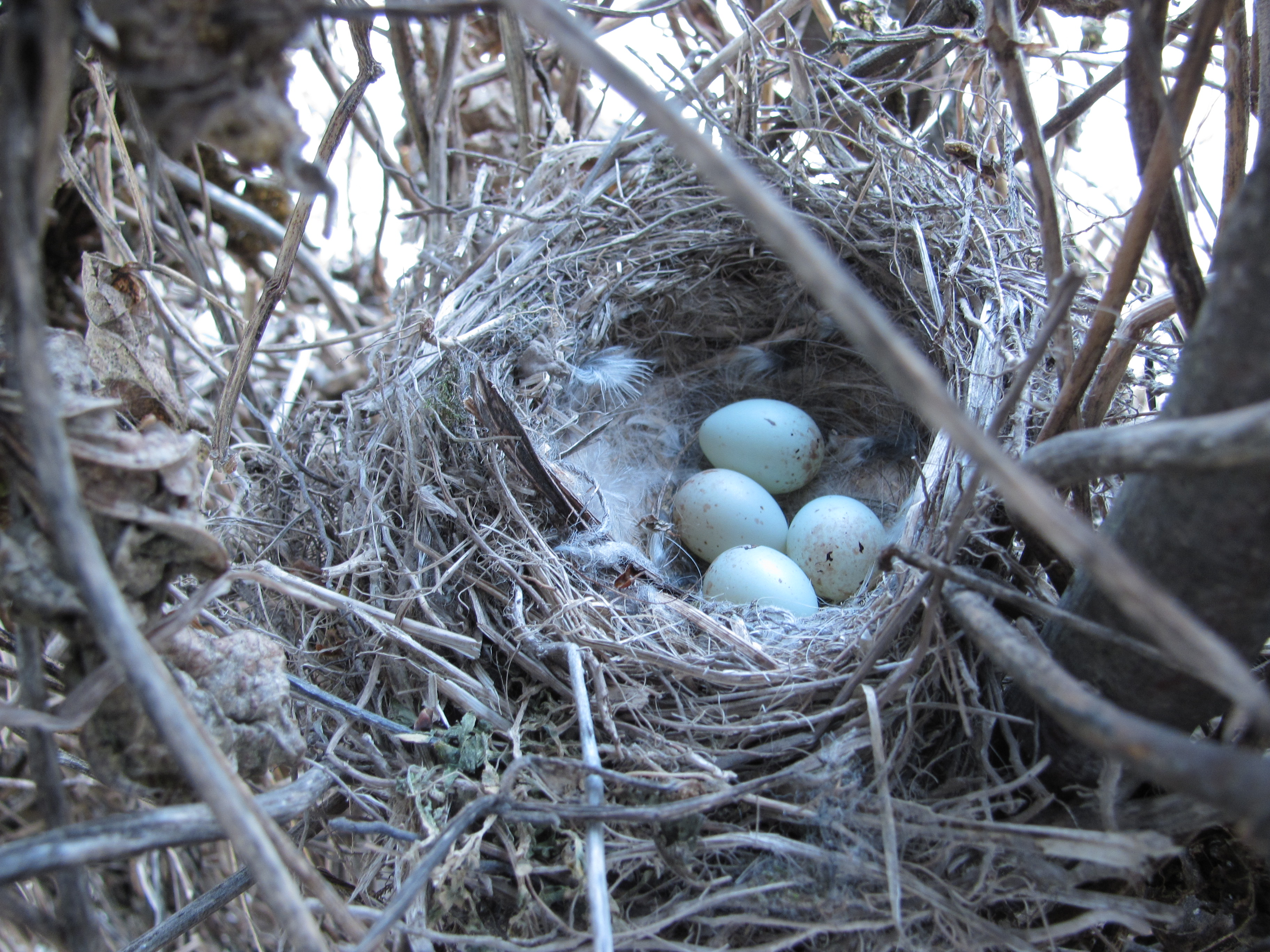 Nest of Common linnet